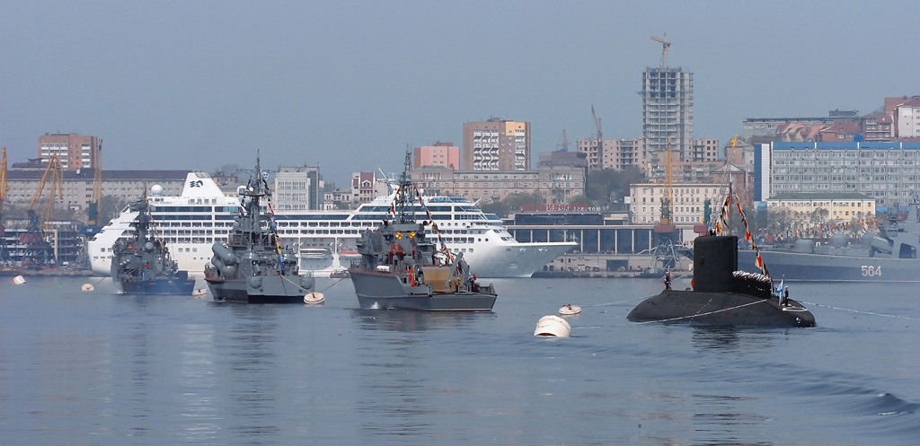 “The naval review on the 275th anniversary of the Pacific fleet”. The naval review on the 275th anniversary of the Pacific fleet.